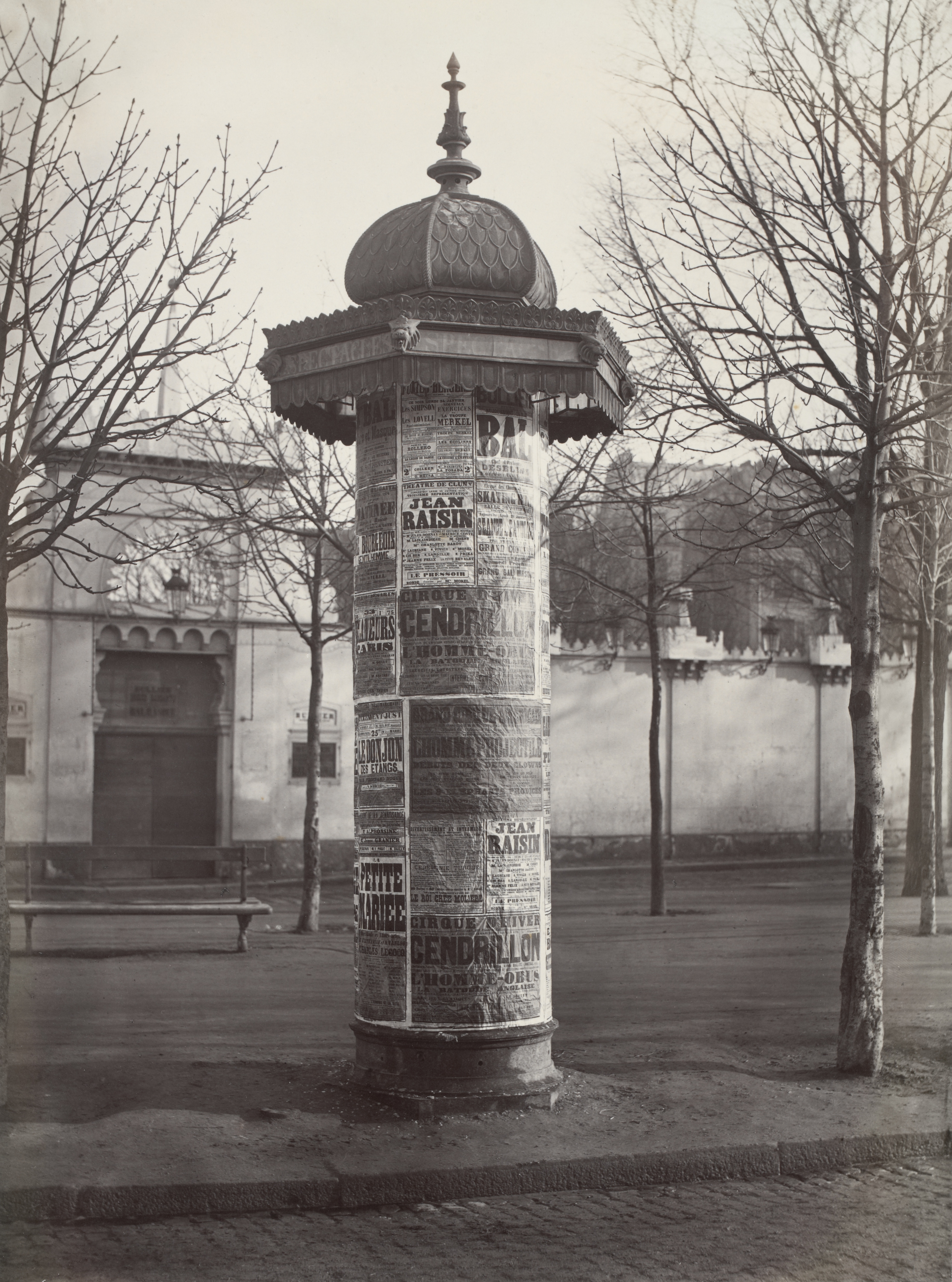 Column with decorative trim at top with cupola and finial, covered in posters, situated at edge of path, stone wall with gate in background, 39 Avenue de l’Observatoire, now Avenue Georges-Bernanos, Paris.